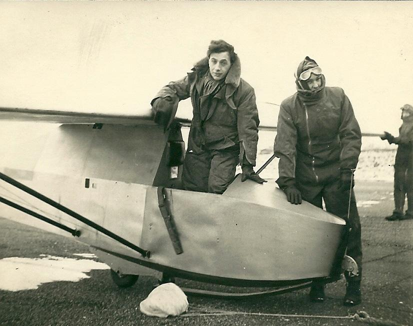 Slingsby T.8 Kirby Tutor, Paul Blanchard + unknown co-pilot